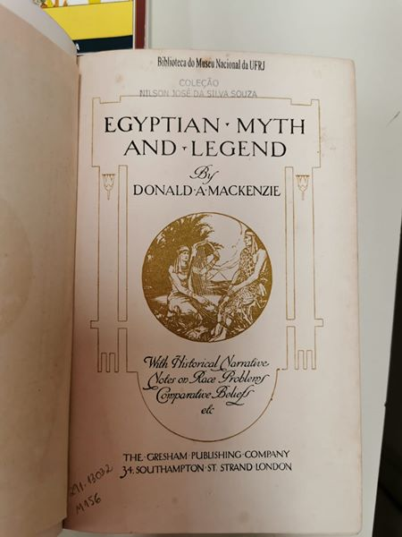 Capa do book Egyptian myth and legend, doada ao Museu Nacional